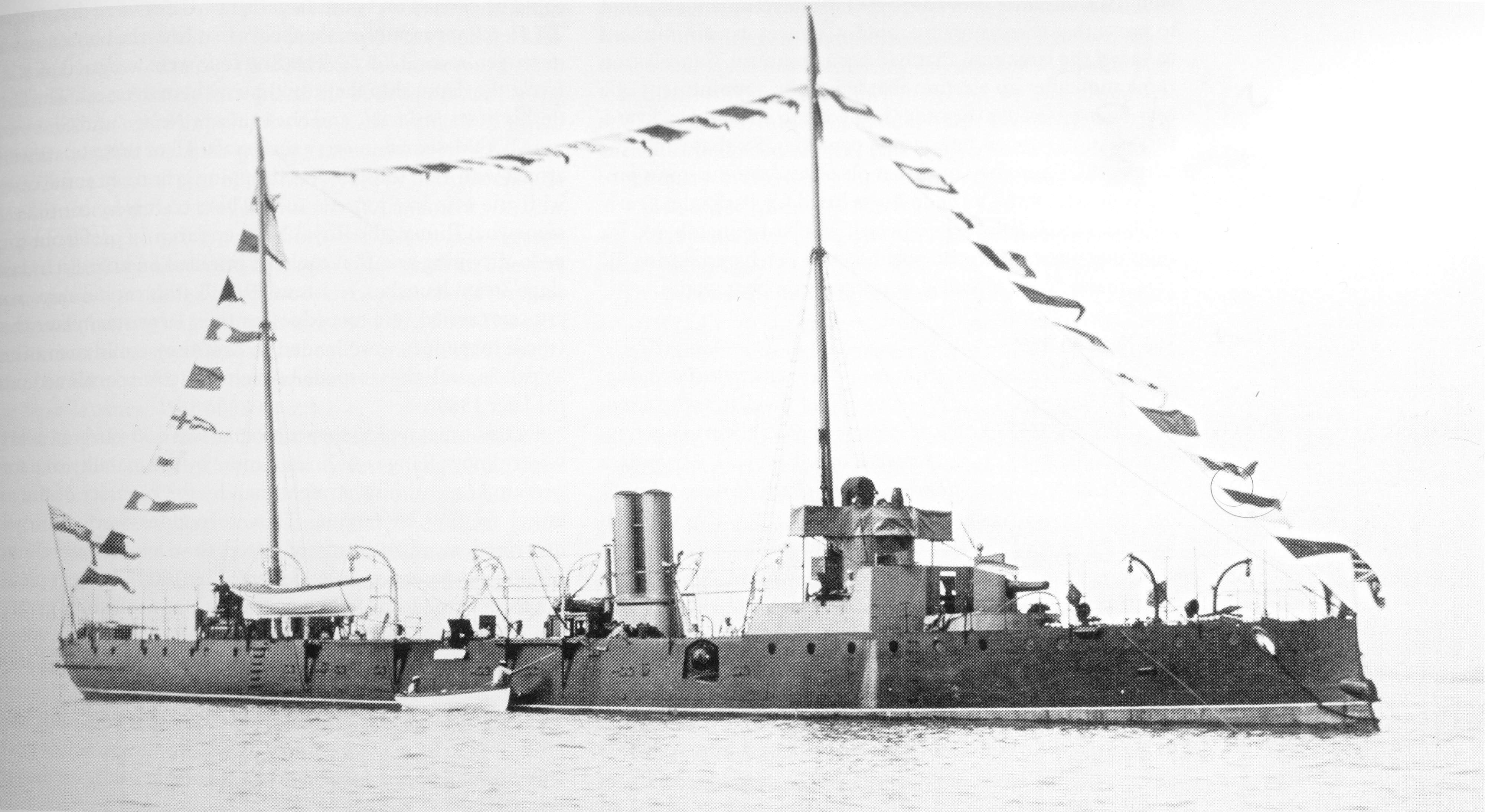 HMS Spider (1887), one of the prototype class of torpedo gunboat in the Royal Navy